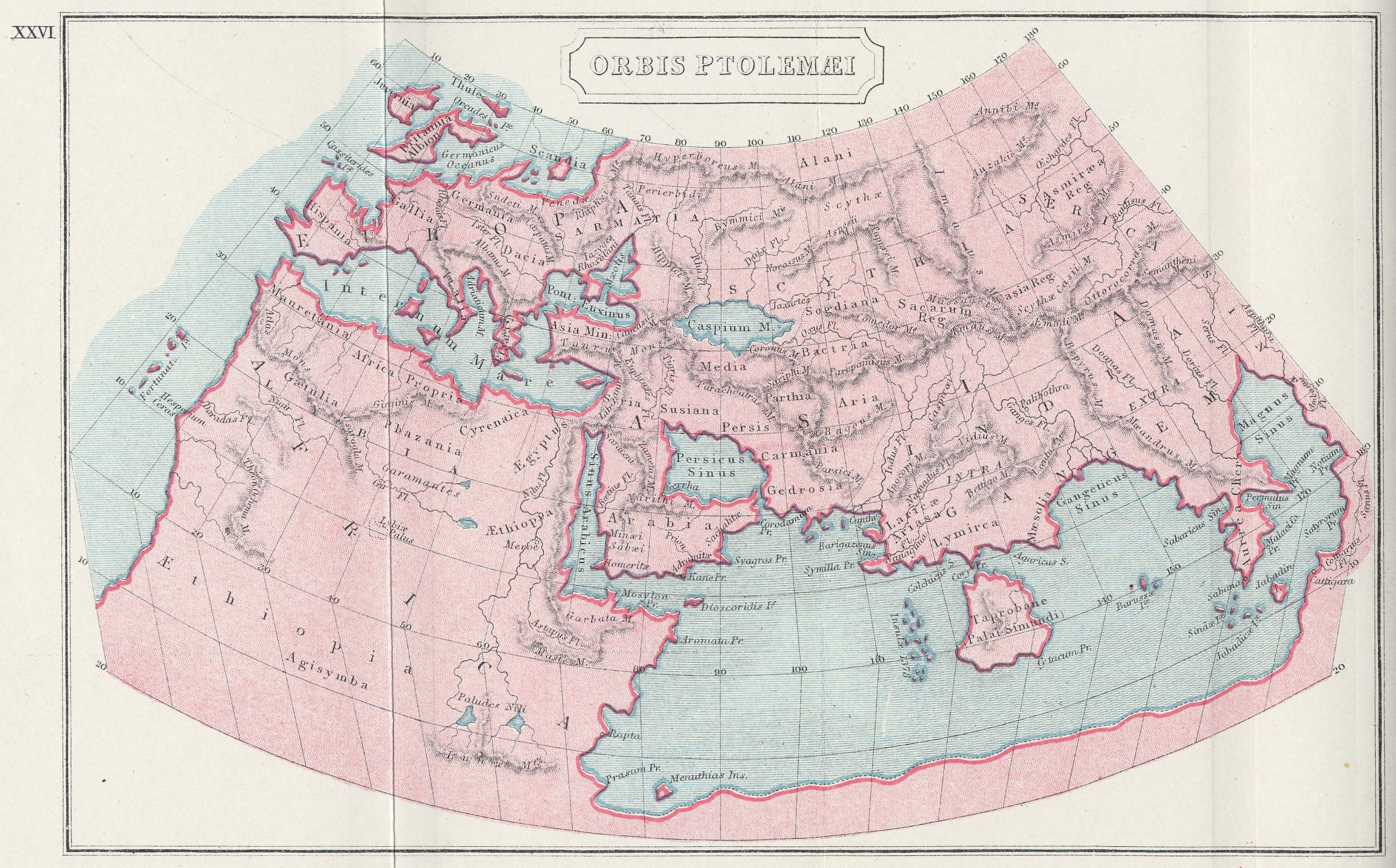 The Atlas of Ancient and Classical Geography by Samuel Butler